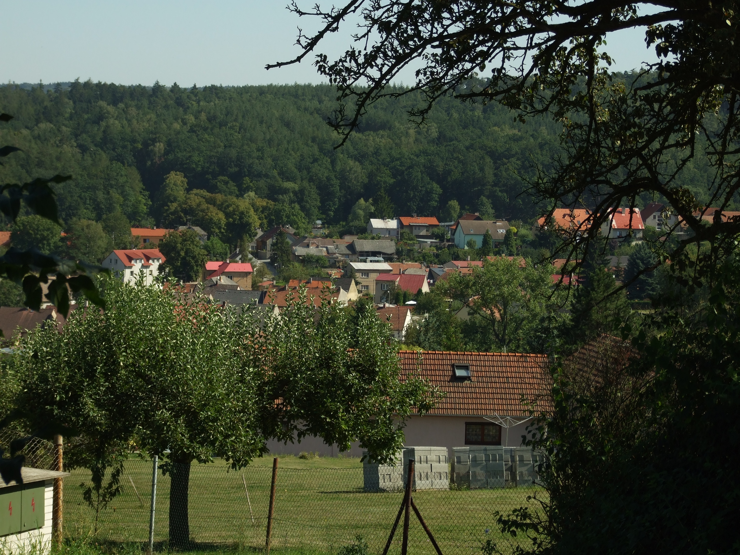 Svinařov village in Kladno district, Central Bohemian region, CZ This photograph was taken within the scope of the 'Czech Municipalities Photographs' grant.